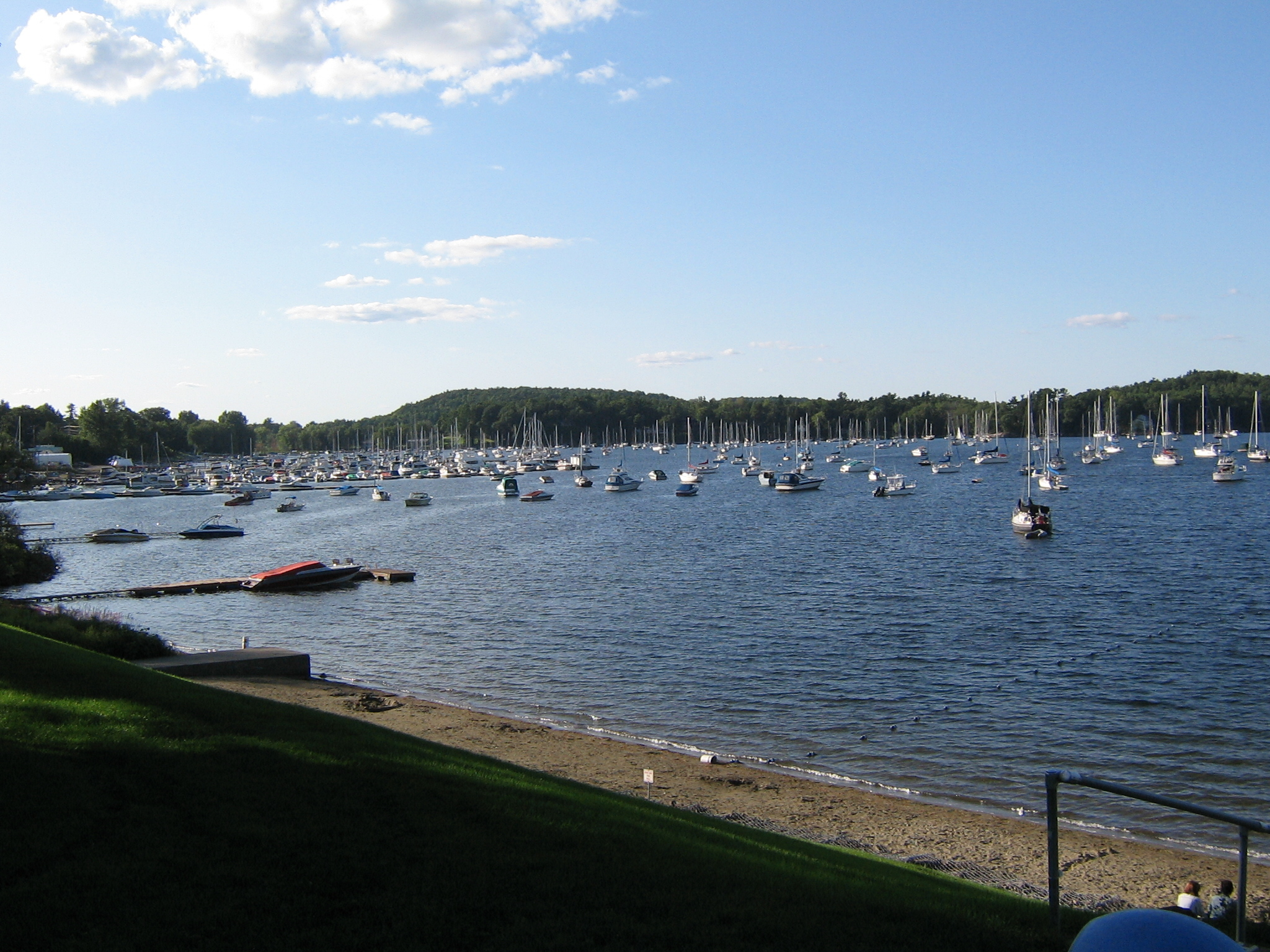 Lake Champlain shoreline in Colchester VT